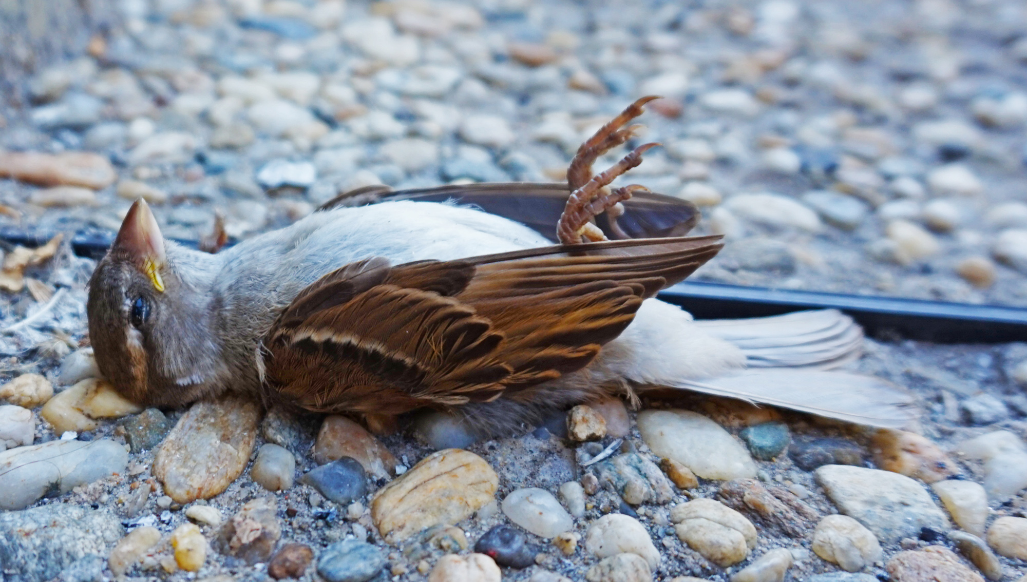 A dead bird in Bucharest.This photograph was taken with a Sony ILCE-5000